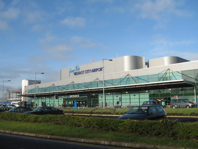 George Best Belfast City Airport George Best Belfast City Airport terminal building.